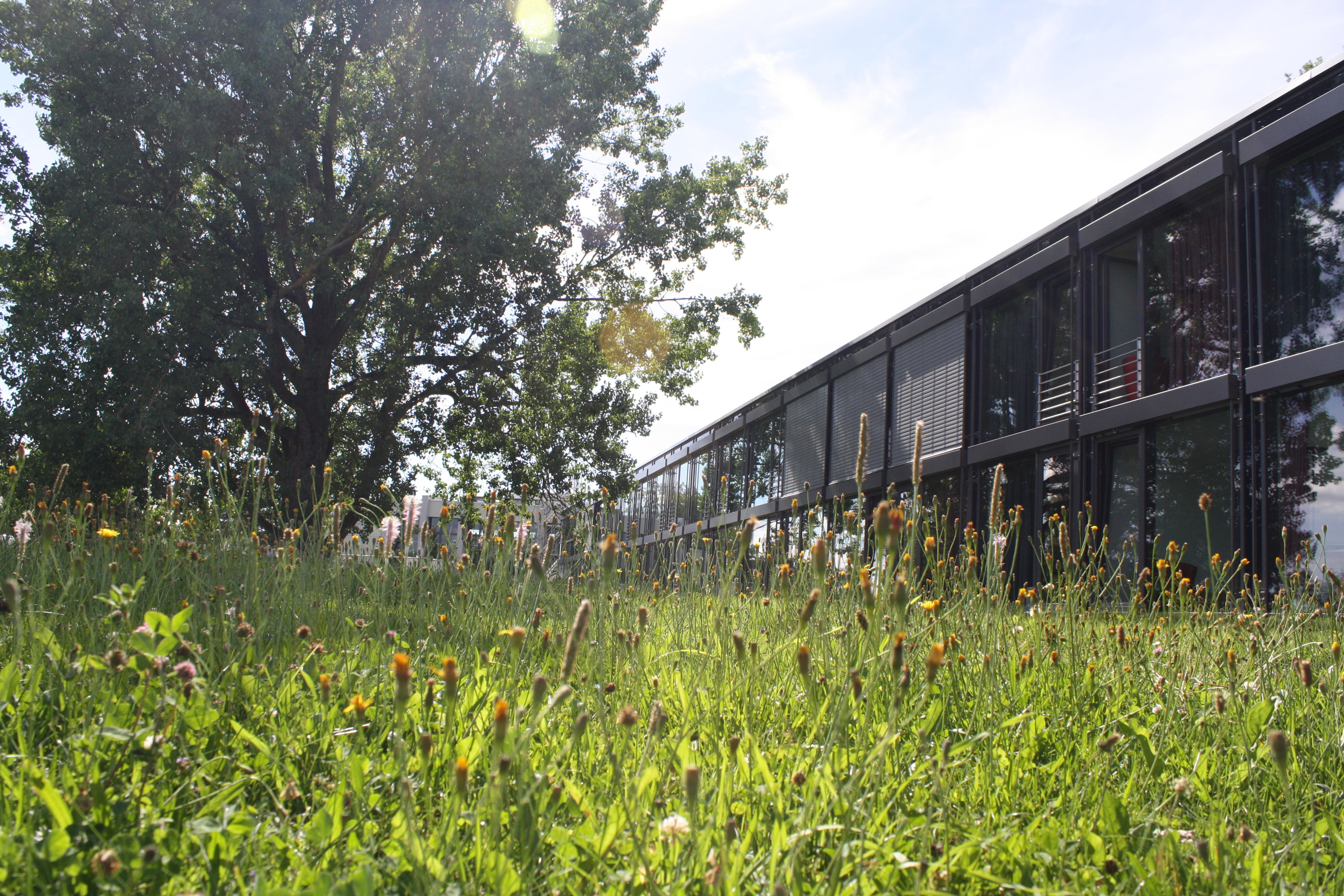 Bundesakademie für musikalische Jugendbildung